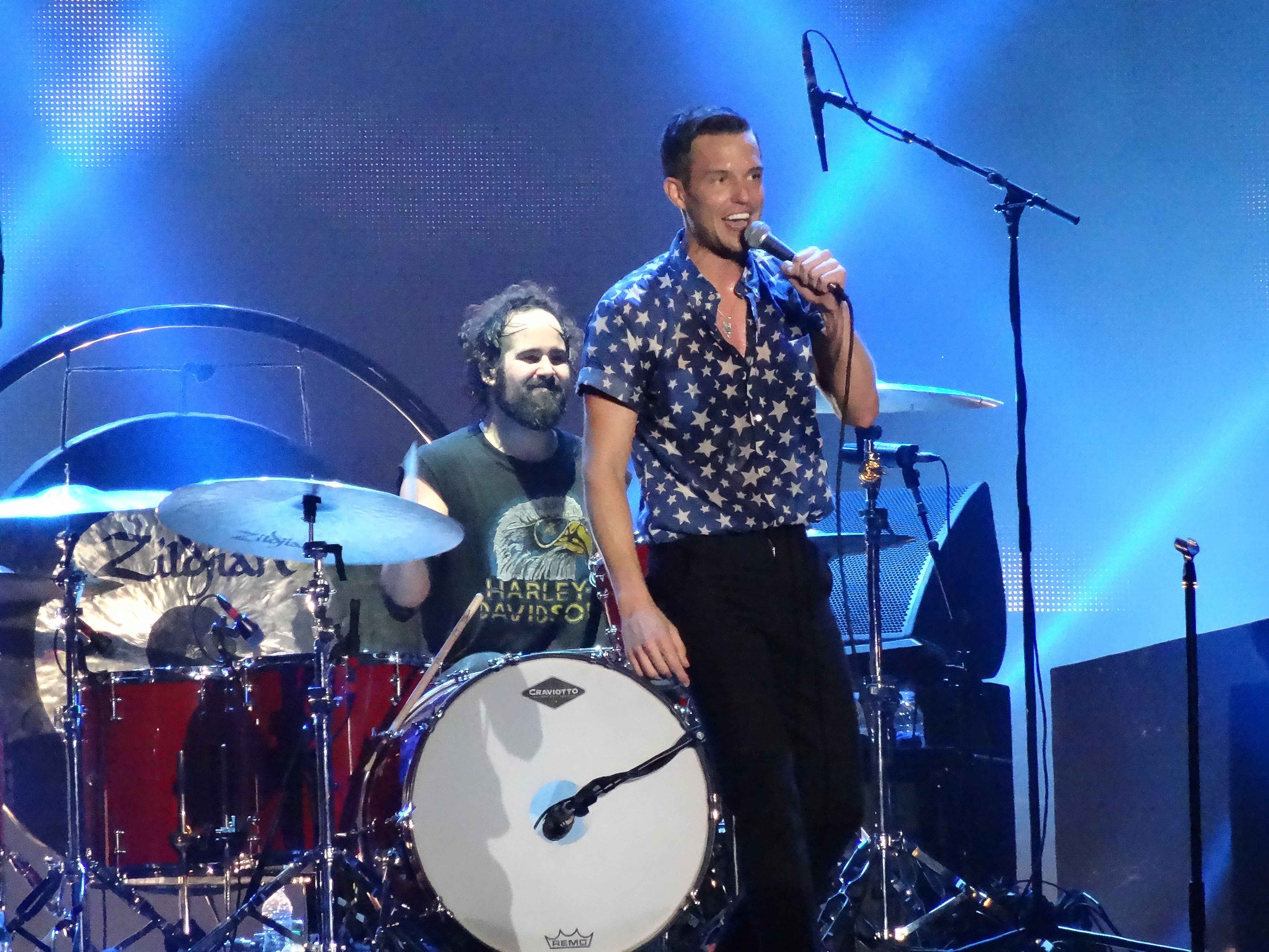 The Killers @ Park Live Festival, VVC (All-Russia Exhibition Centre), Moscow, 29.06.2013